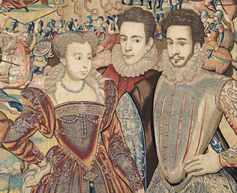 Marguerite de Valois with her brother François, Duke of Anjou (right). Detail of the Valois Tapestries.